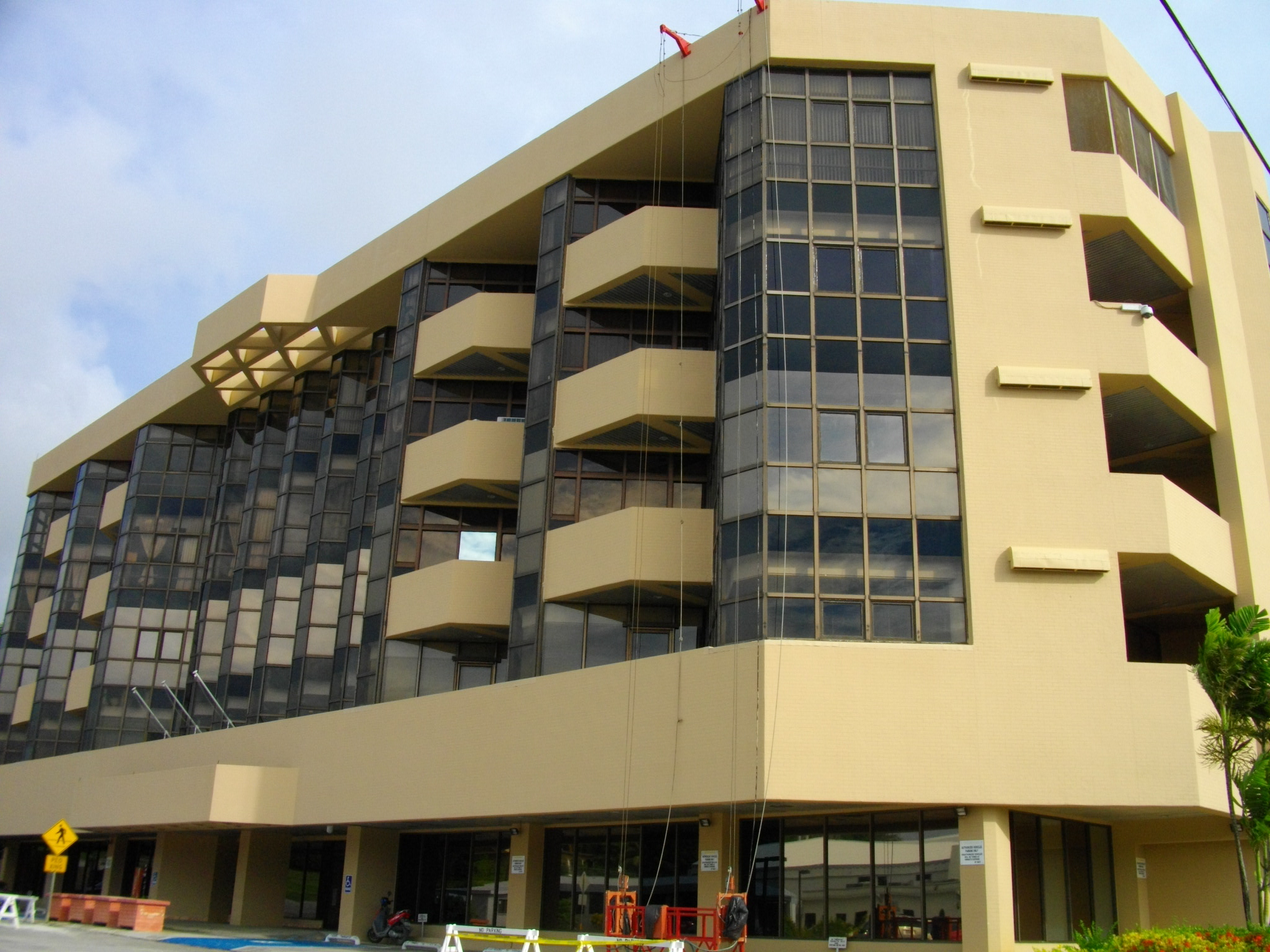 Horiguchi Building in Garapan